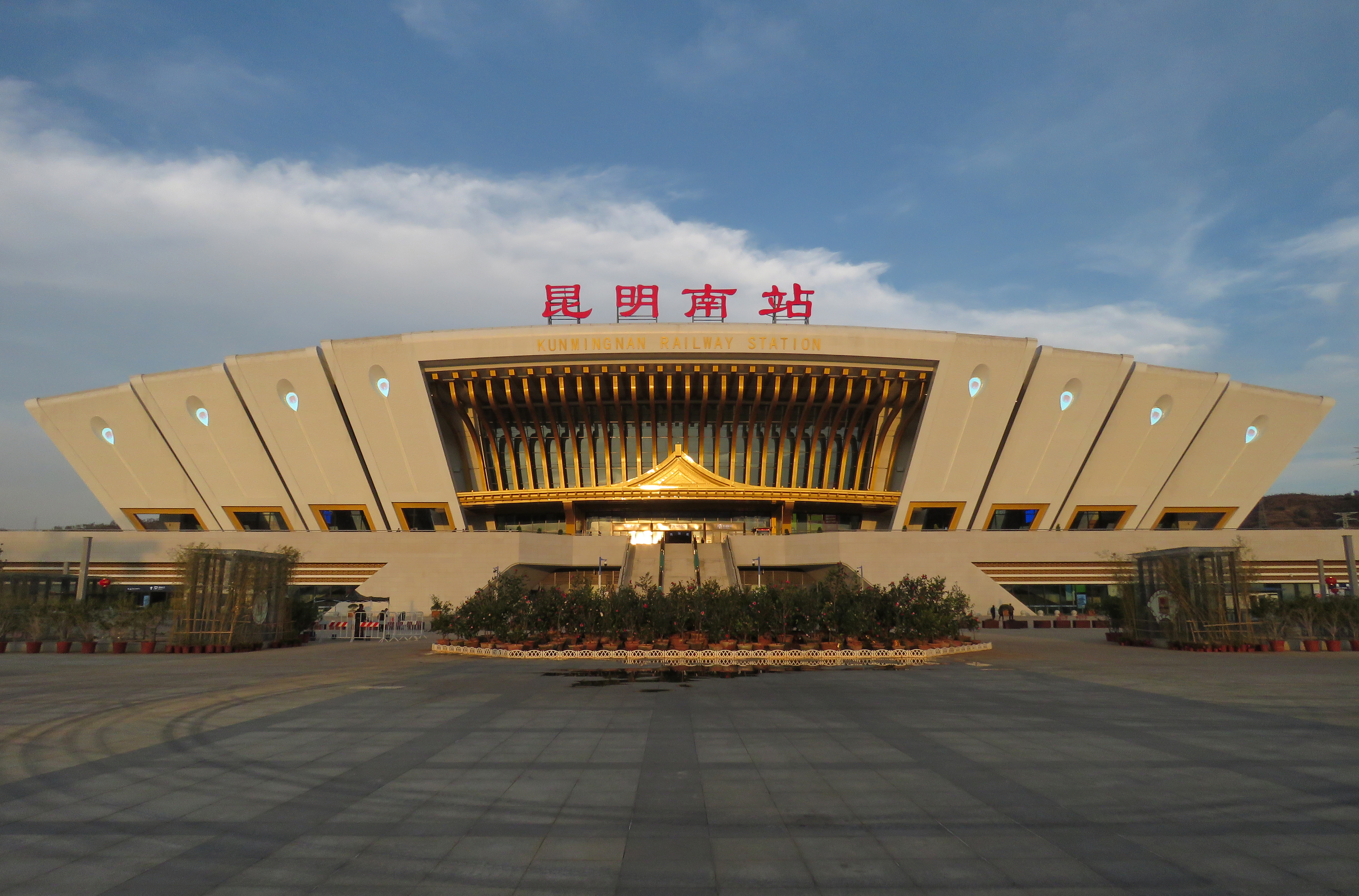 This peacock-like station shows an exclusive matter of beauty prior to sunset.